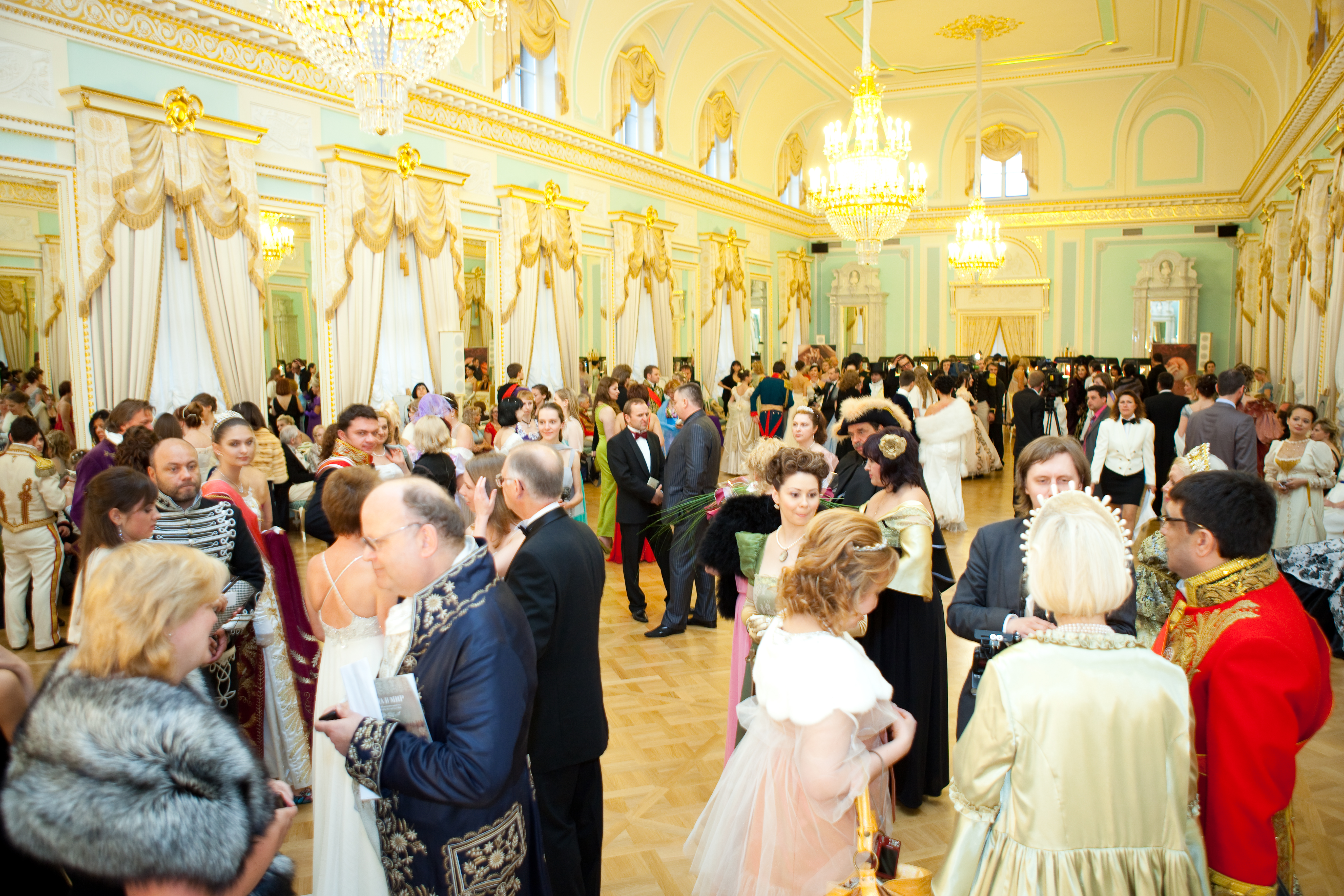 Guests of the War and Peace Ball